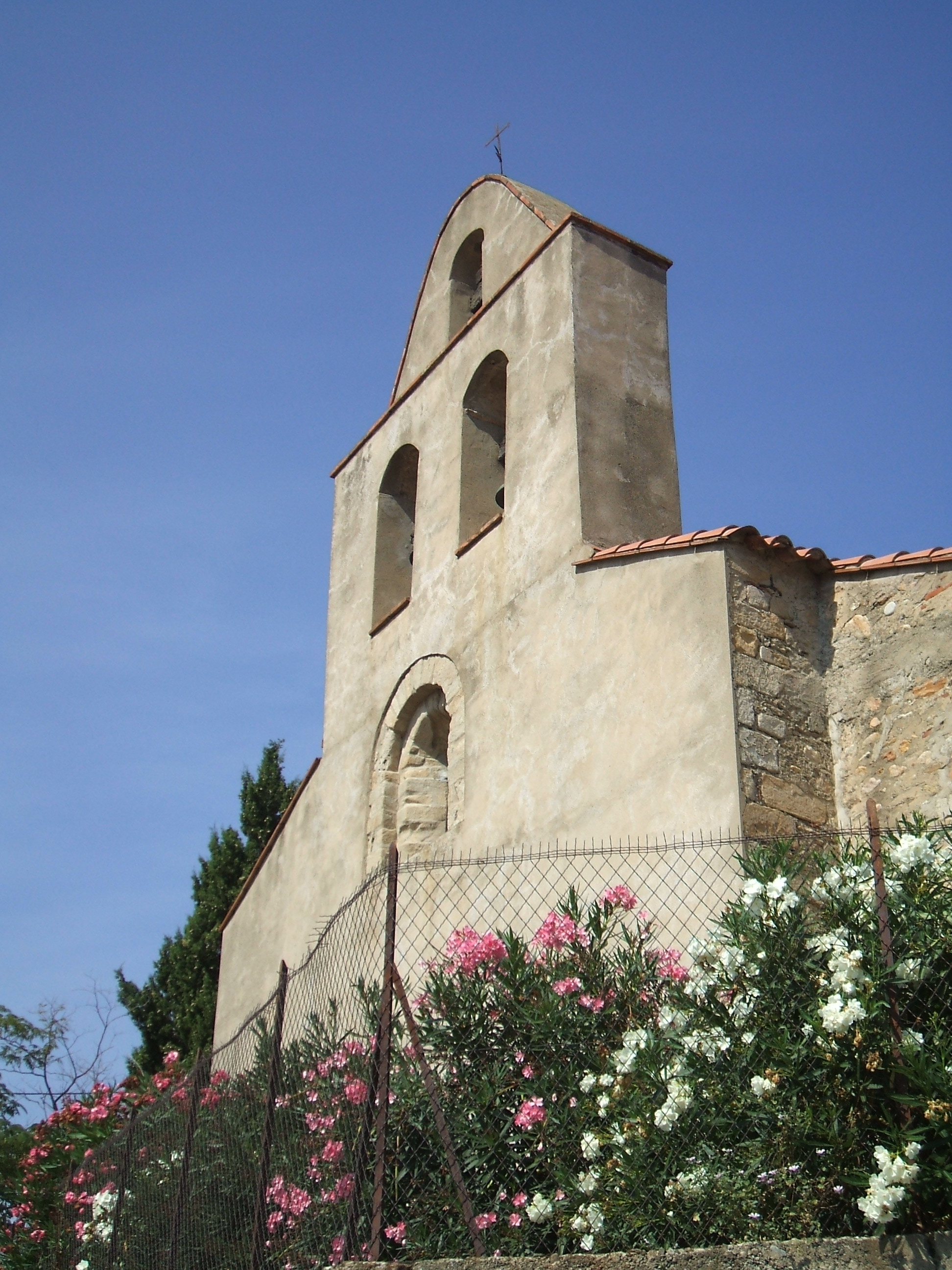 Ortaffa (département of Pyrénées-Orientales, Languedoc-Roussillon région, France) : church of Sainte-Eugénie (XIIth century, Romanesque architecture). Western side.